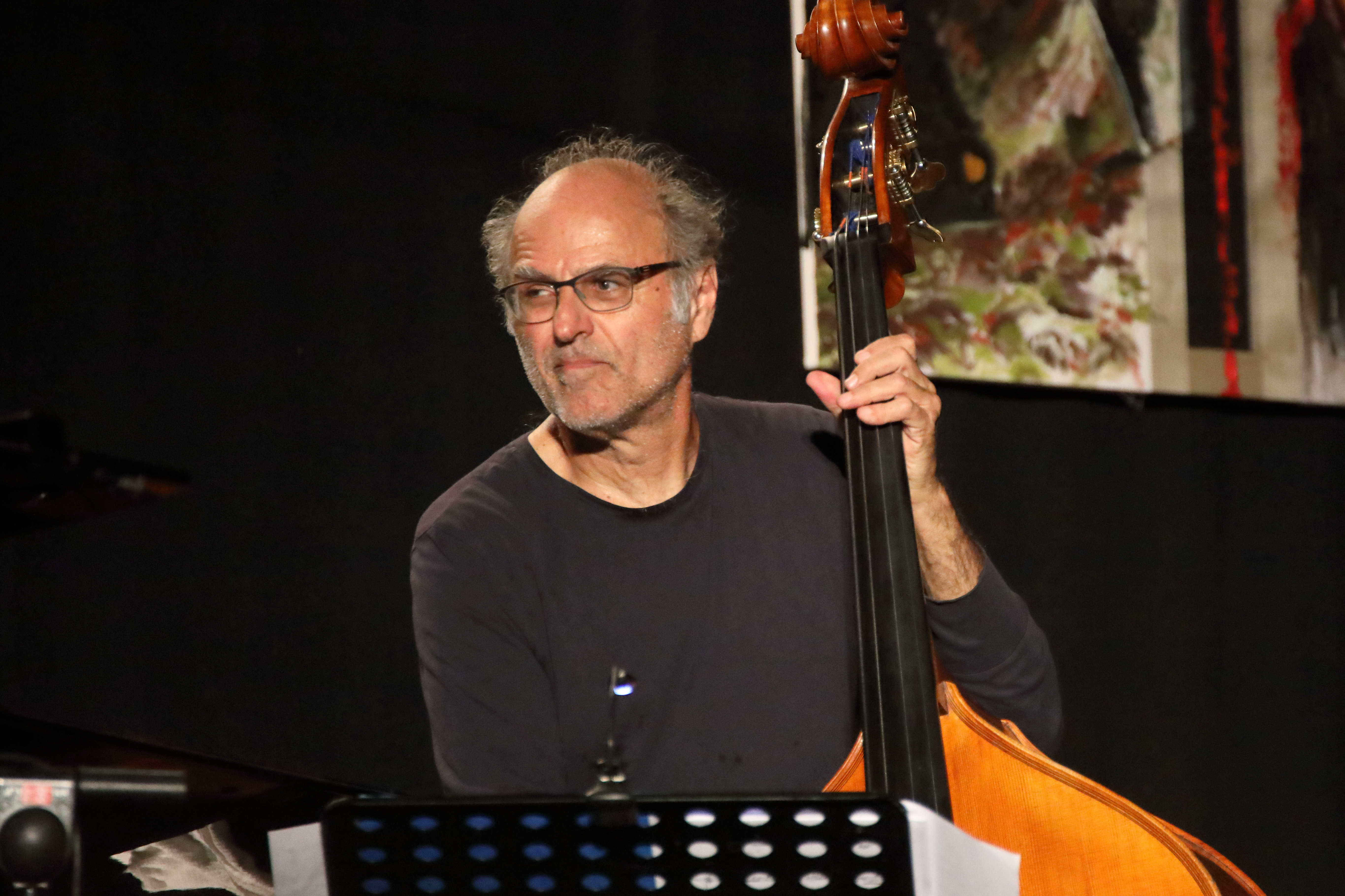 The Florian Weber Quartet with Ralph Alessi (tr) at INNtöne Jazzfestival 2019. Michel Benita (db) & Nasheet Waits (dr).